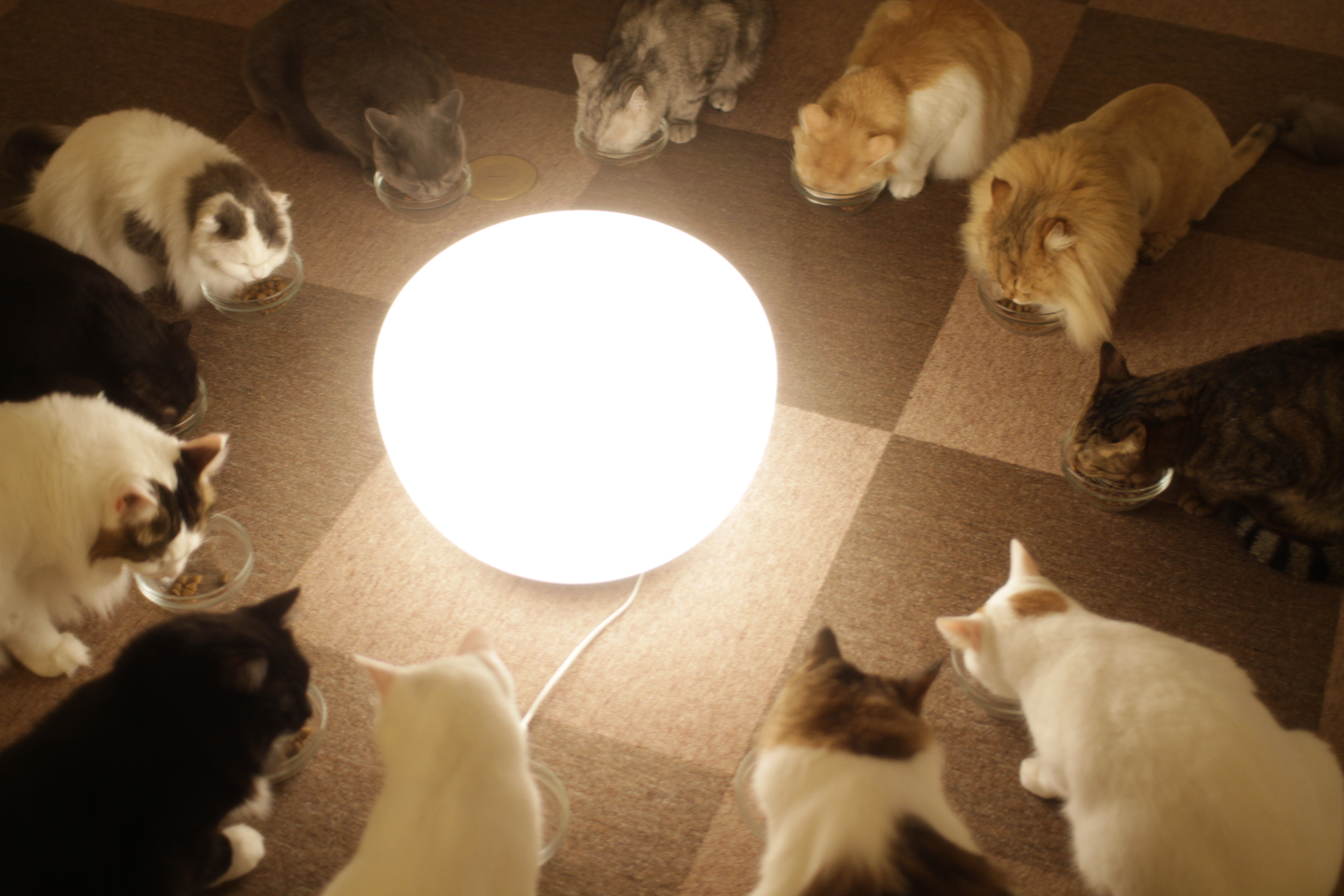 I've been to the cat cafe for 3 times, but this is the first time I see a supper scene.